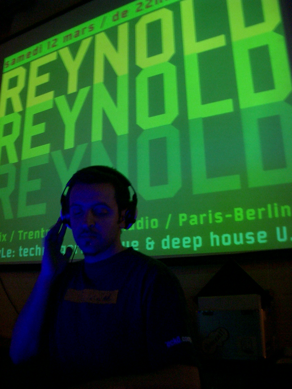 Reynold taken at Lieu Unique in Nantes, 2005